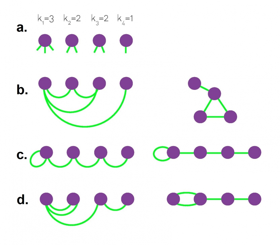 The configuration model builds a network whose nodes have pre-defined degrees.